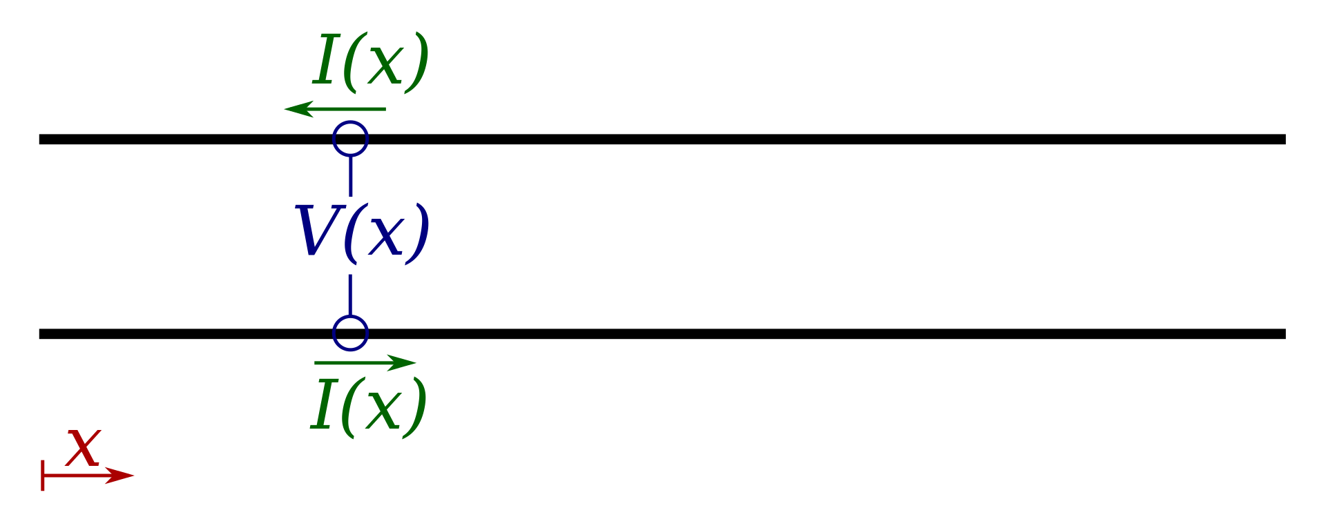 Two-wire transmission line. At a distance x into the line, there is current I(x) traveling through each wire in opposite directions, and there is voltage V(x) between the wires. If the current and voltage come from a single sinusoidal traveling wave (with no reflection), then the ratio V(x) / I(x) = Z0, the characteristic impedance of the line.